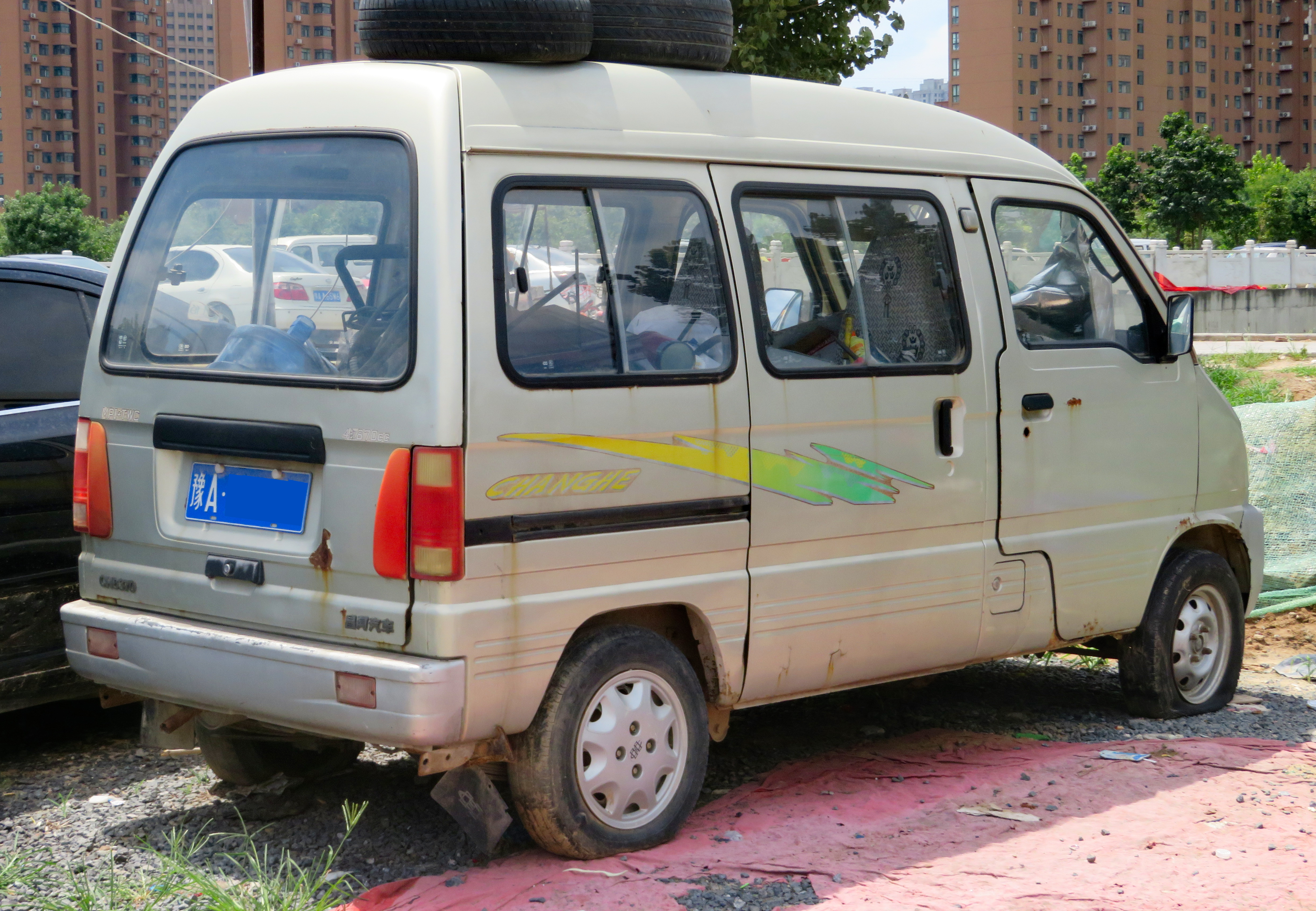 A 2005 Jiangxi-Changhe Haitun CH6370 photographed at a used car market in Zhengzhou, Henan province, China